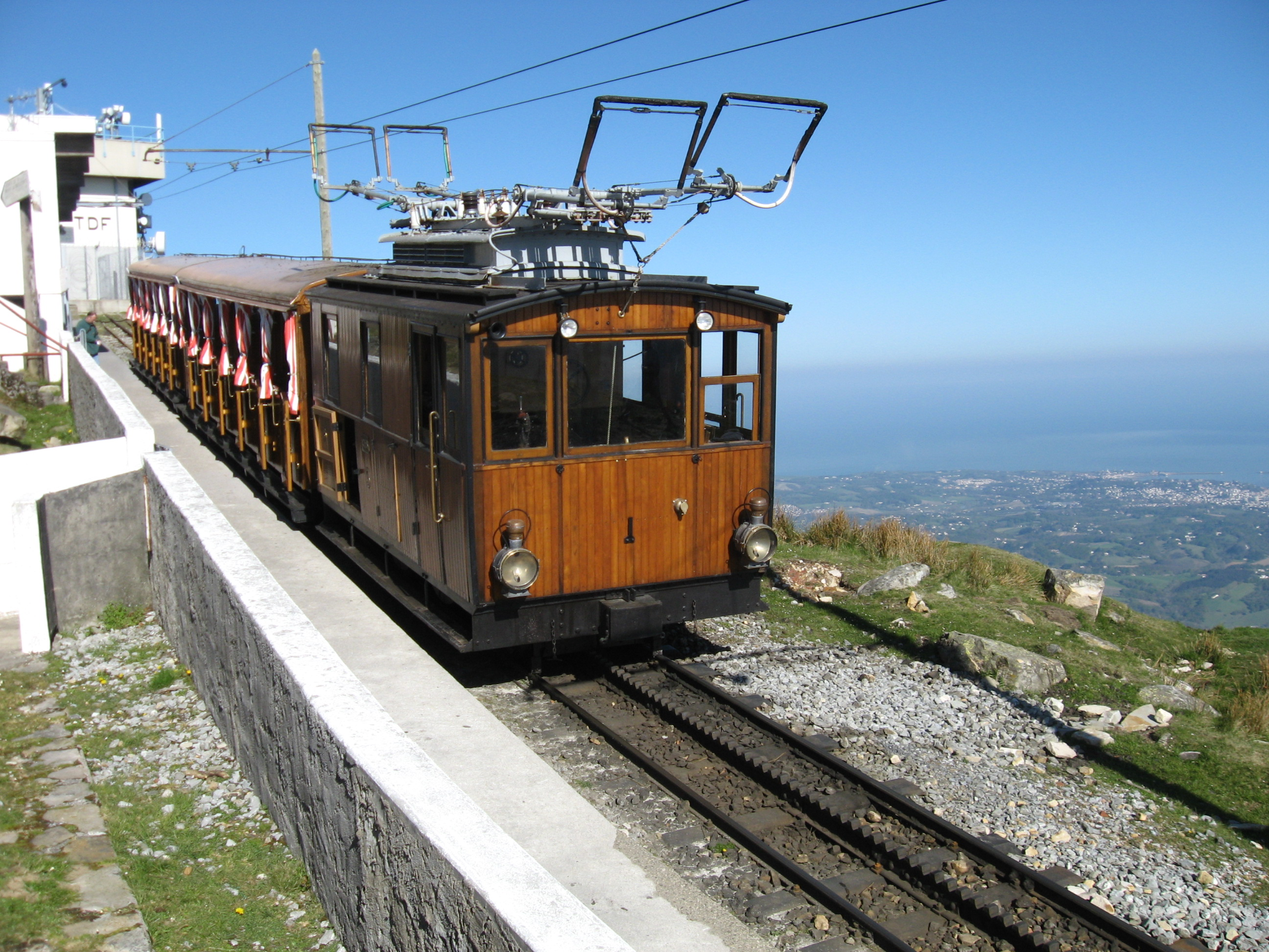 The Rhune railways uses 2 overhead lines. They are on different phases, the third phase is on the rails. The electric motors are fed directly on 3 phases.